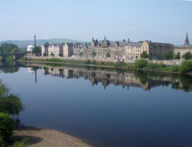 Still water at low tide, Perth Looking across from Queens Bridge to the southern end of Tay Street, with the end of the railway bridge just included. The steeple to the right is St Johns Episcopal Church and the dome and tall chimney to the left are the former waterworks, recently refurbished.